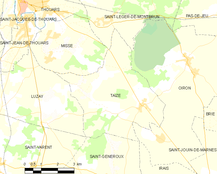 Map of French municipality Taizé